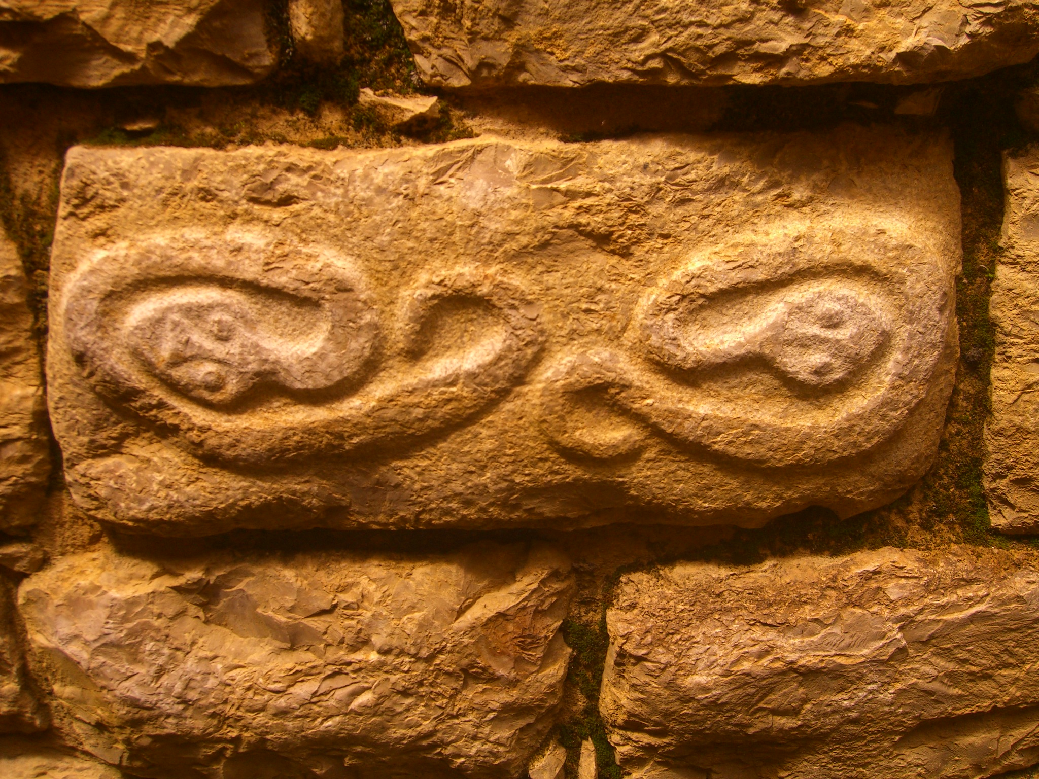 Das Bild zeigt einen verzierten Stein auf der Festung Kuelap